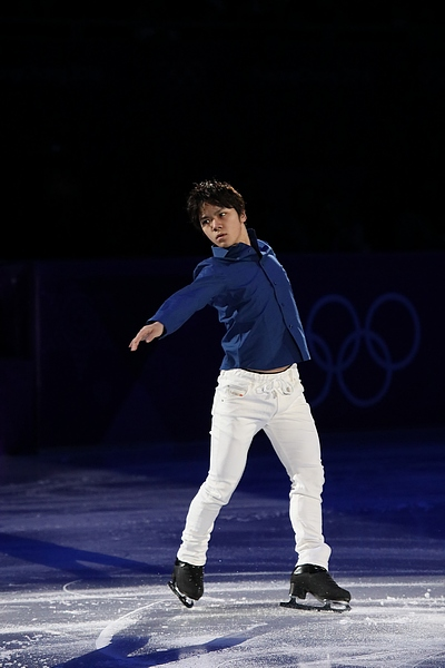 Gala exhibition at the 2018 Winter Olympics